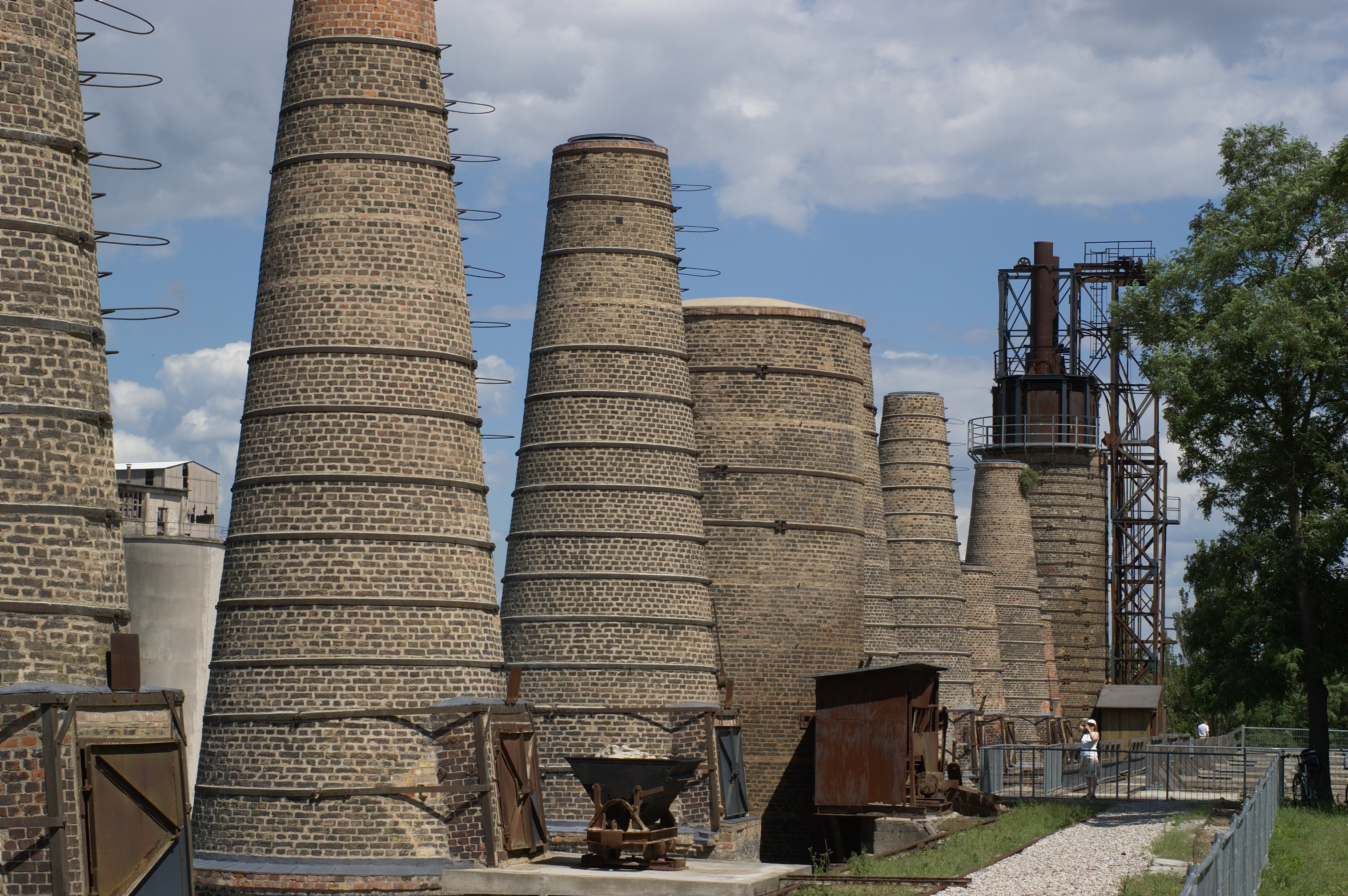 Shaft furnace battery, museum village Rüdersdorf near Berlin. Here is an open mining for lime stone and numerous industrial buildings.